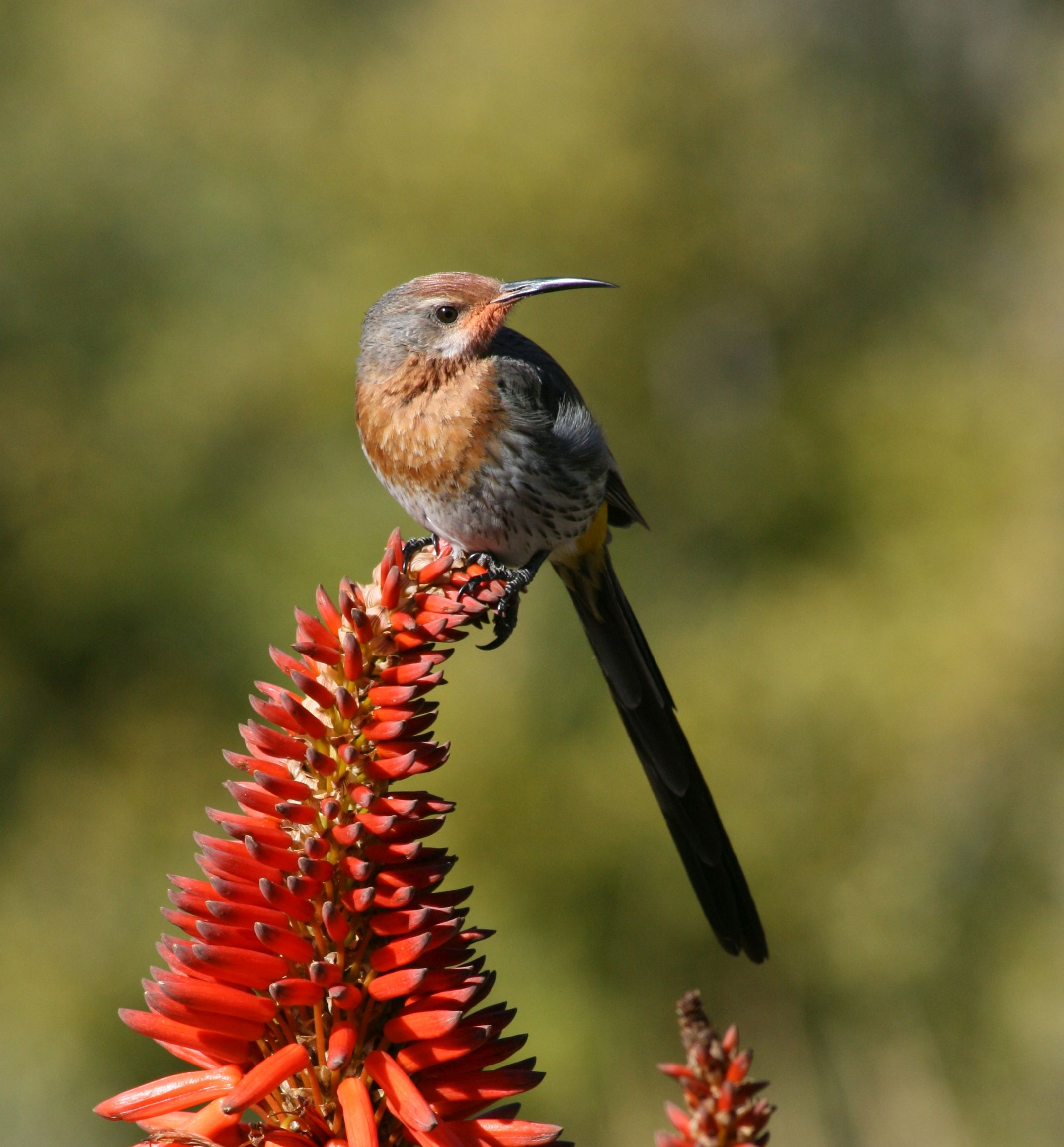 Gurney's Sugarbird (Promerops gurneyi) Location: Cavern Resort, KwaZulu-Natal Drakensberg, South Africa.